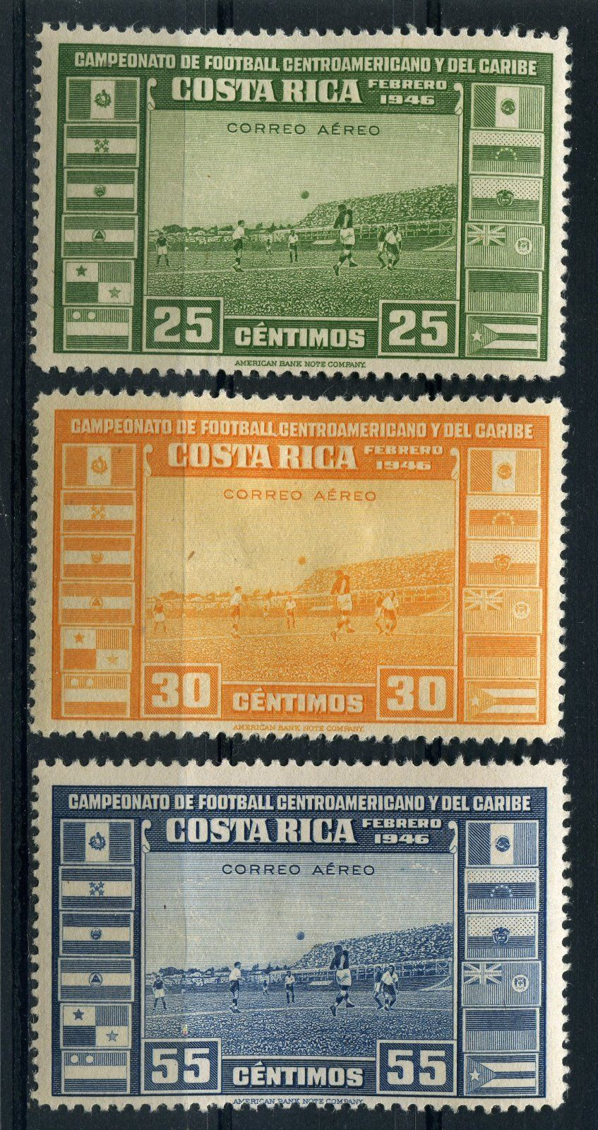 25, 30 and 55 centimos Costa Rican stamps